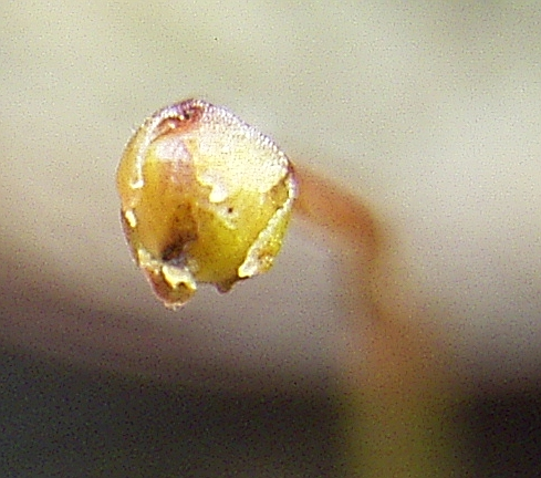 Genlisea repens capsule Author: Denis Barthel